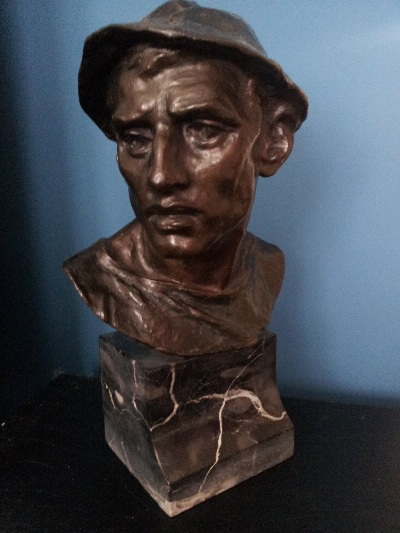 a bronze statue depicting a miner by Adolph Joseph Pohl